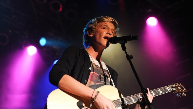 Cody Simpson live Walmart Soundcheck concert from the Anaheim House of Blues.